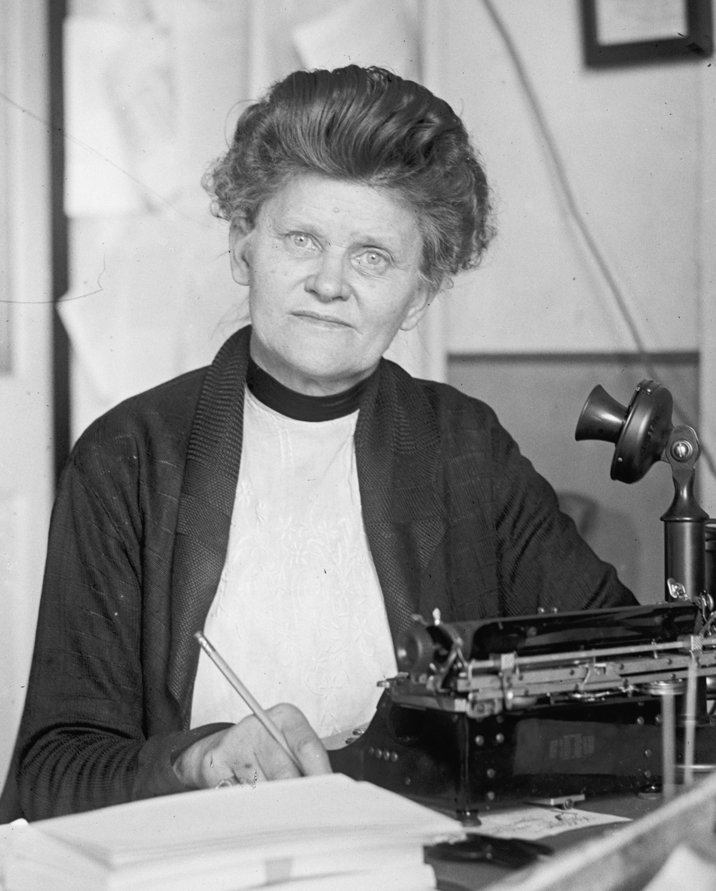 Title: Miss Georgia Hopley, 2/8/22 Abstract/medium: National Photo Company Collection (Library of Congress) Physical description: 1 negative